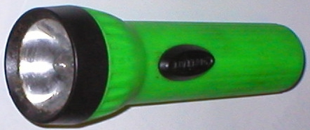 Flashlight